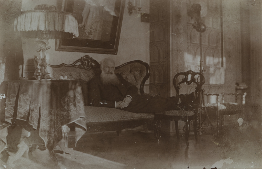 Elderly gentleman in Schwarzbeckshof manor